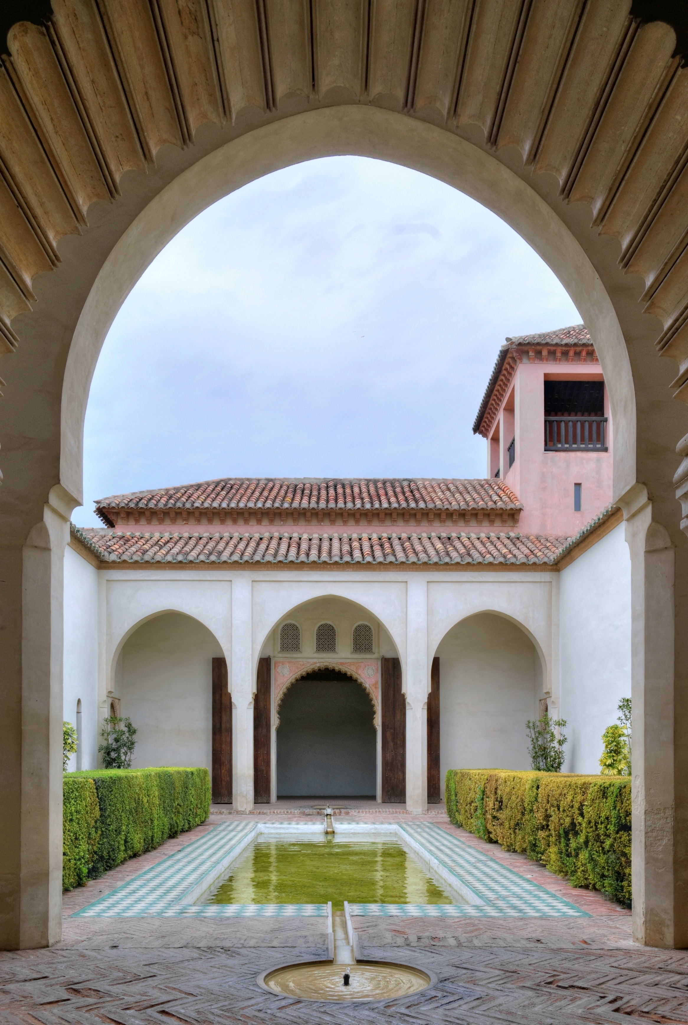 Spain, Malaga, Alcazaba